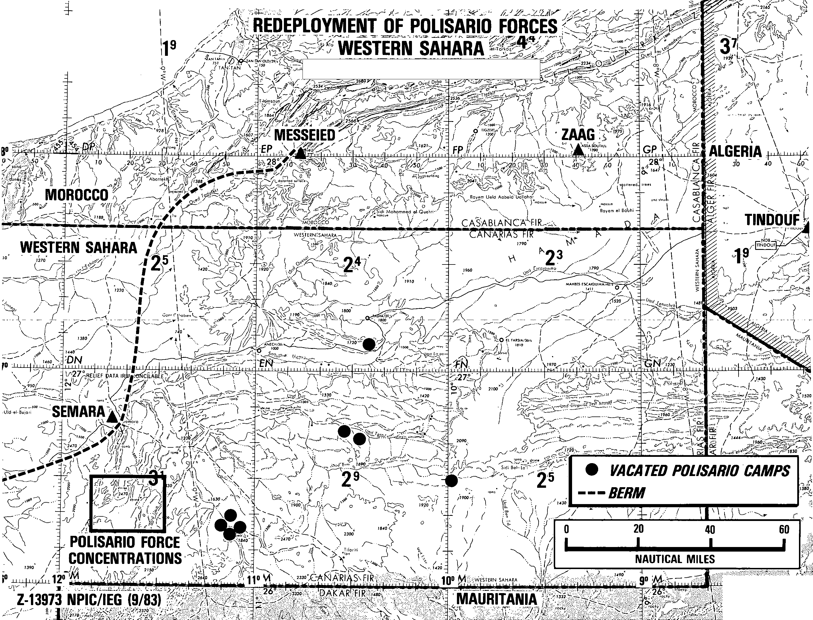 REDEPLOYMENT OF POLISARIO FORCES WESTERN SAHARA (SANITIZED)